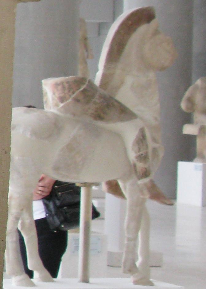 The Persian horsman